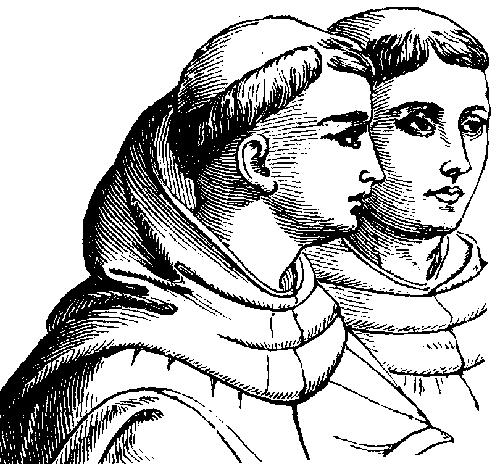 Tonsure (monks with bald haircut)